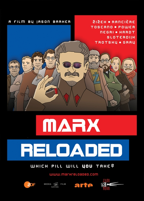 This is cover art for Marx Reloaded.